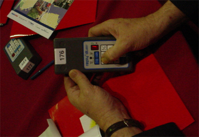 Handheld keypad used for polling audiences during meetings. Photo taken by Ken Snyder